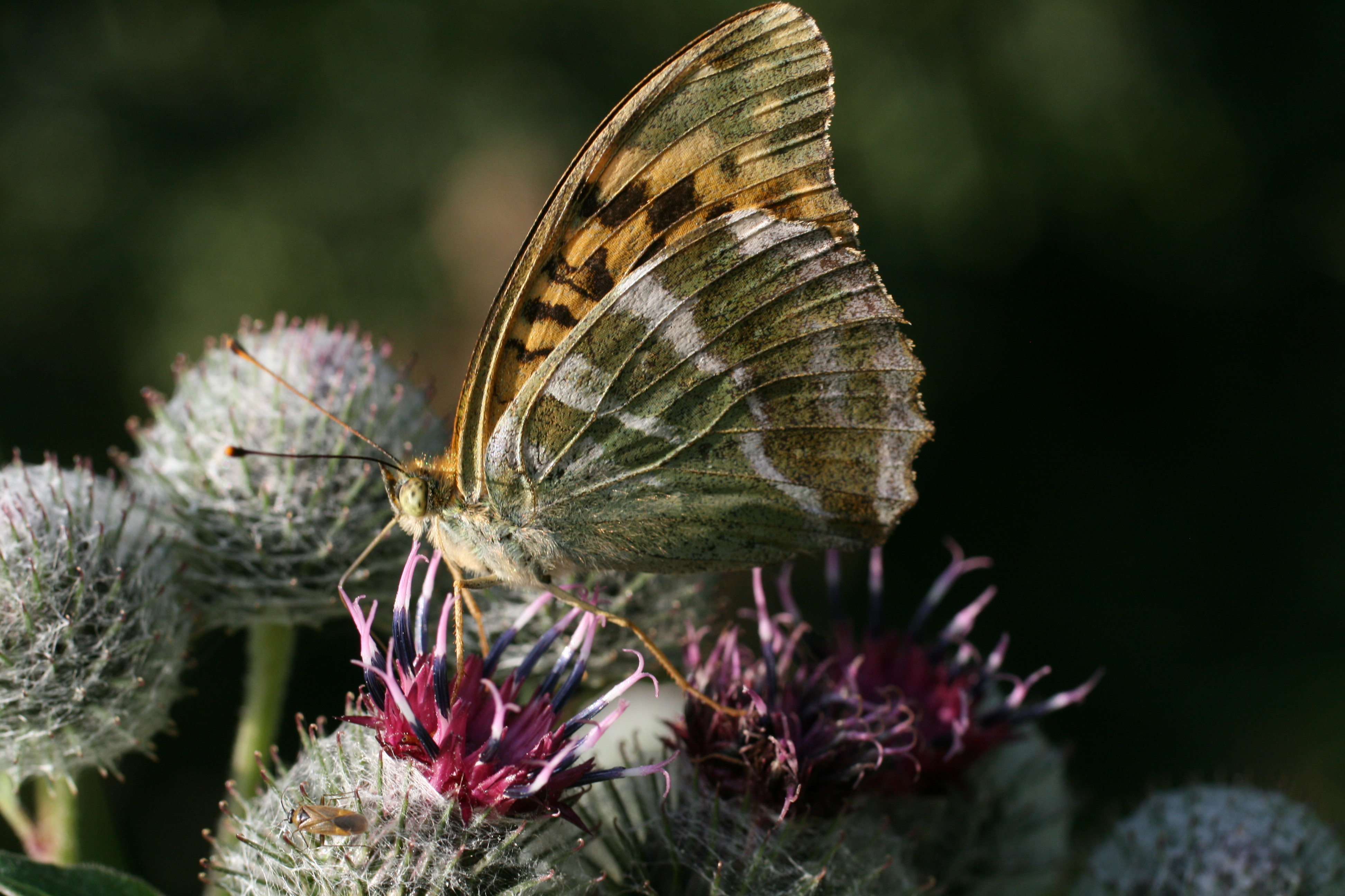 Argynnis paphia seen in Lill-Jansskogen, Stockholm, Sweden.